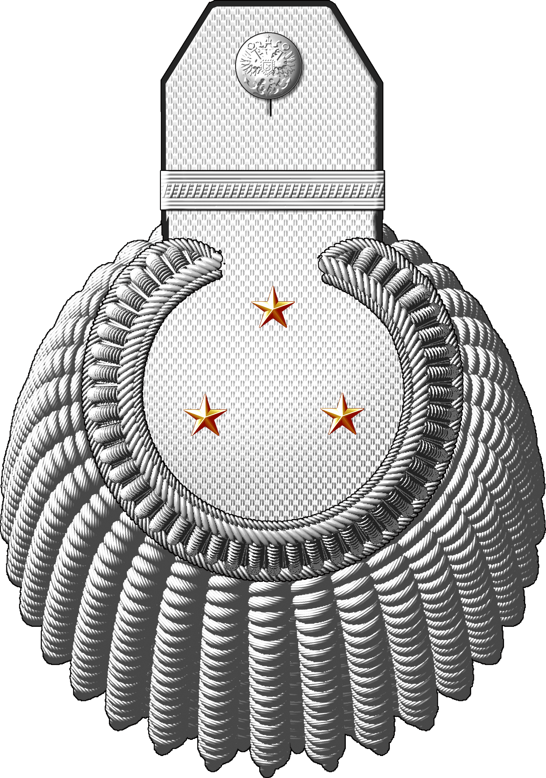 Rank insignia of the Imperial Russian Navy (IRB) until 1917. Epaulette, rank: «Lieutenant general – Engineer-technical corps of the fleet», 1905-1913, comparable to OF-7.